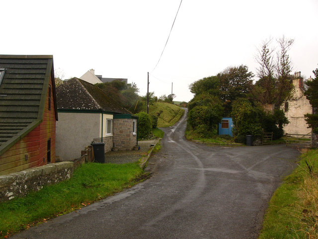 Auchenmalg Auchenmalg consists of a few houses and farms, a village hall, telephone box and an excellent pub.